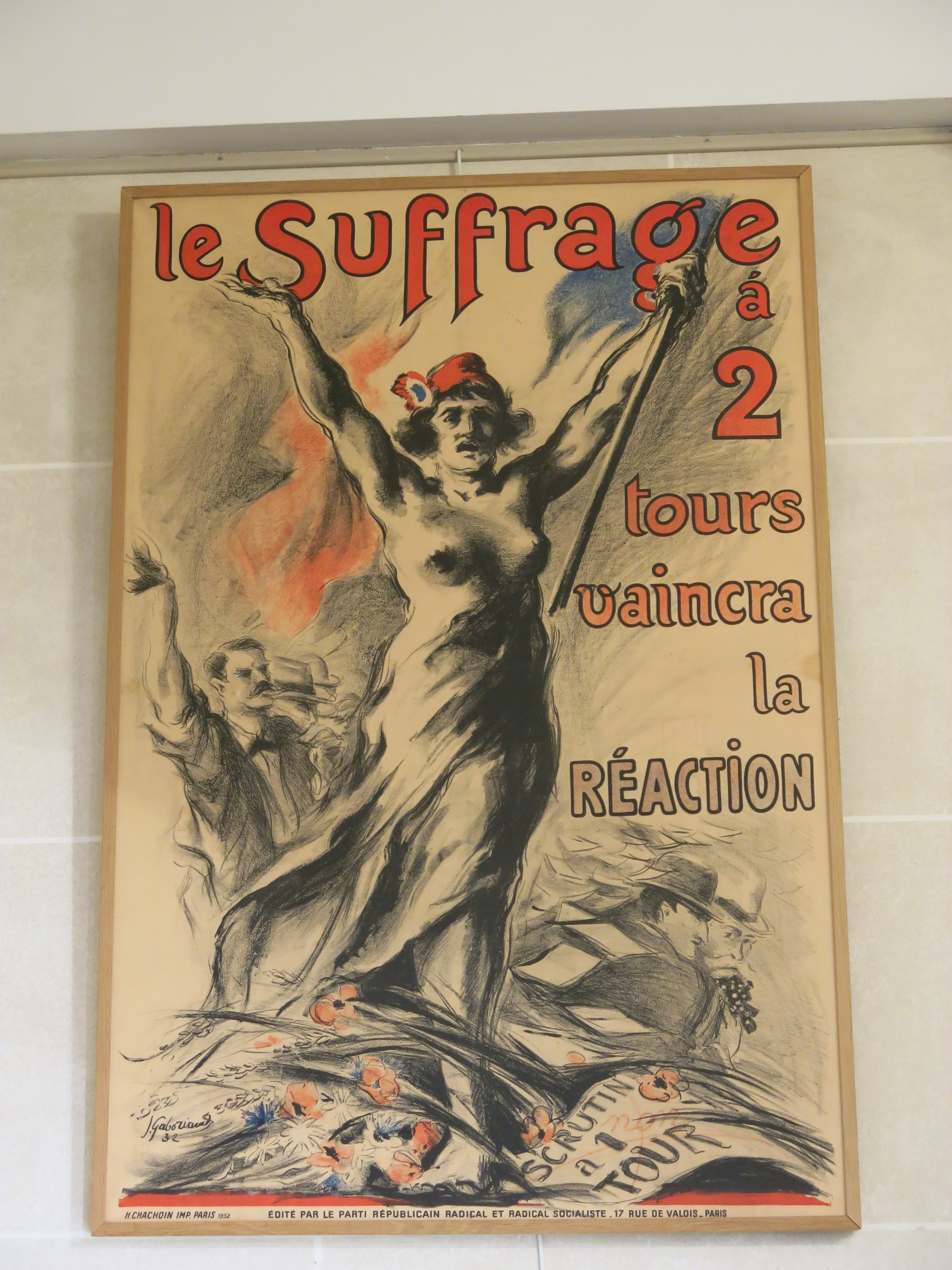 French poster in favour of universal suffrage with 2 steps. Preserved in the palais du Luxembourg (Paris, France).